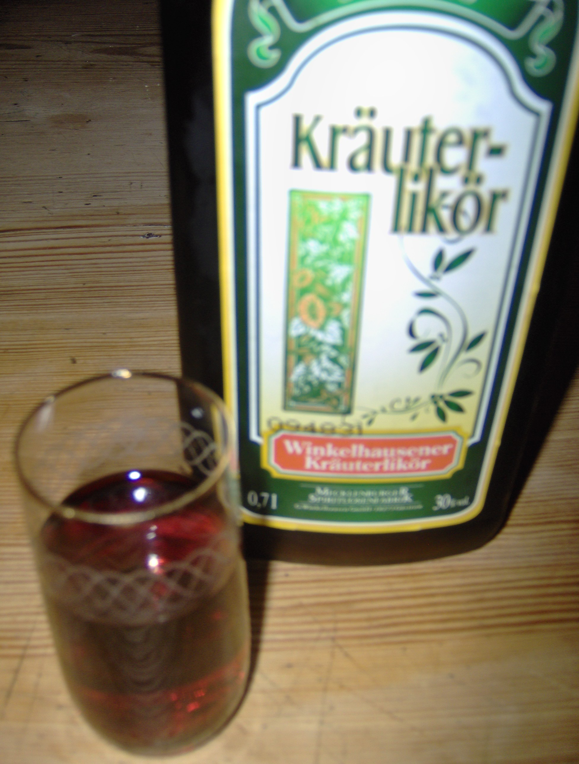 A glass of Kräuter (cordial)